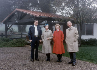 The Reagans with Queen Elizabeth II and the Duke of Edinburgh at Rancho del Cielo, the Reagans' California ranch.